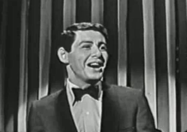 Still/screenshot from the popular NBC-TV series "Coke Time with Eddie Fisher". The host Eddie Fisher was a popular singer in the United States during the 1950's, and was known as "The Jewish Sinatra". His songs were largely in the traditional-pop genre, aimed at a teen-audience, though he was 26 at the time of this broadcast. Like most live United States television of the decade, the show aired without a copyright notice (I have the complete show on a DVD I bought), and was not registered for copyright with the US copyright office.